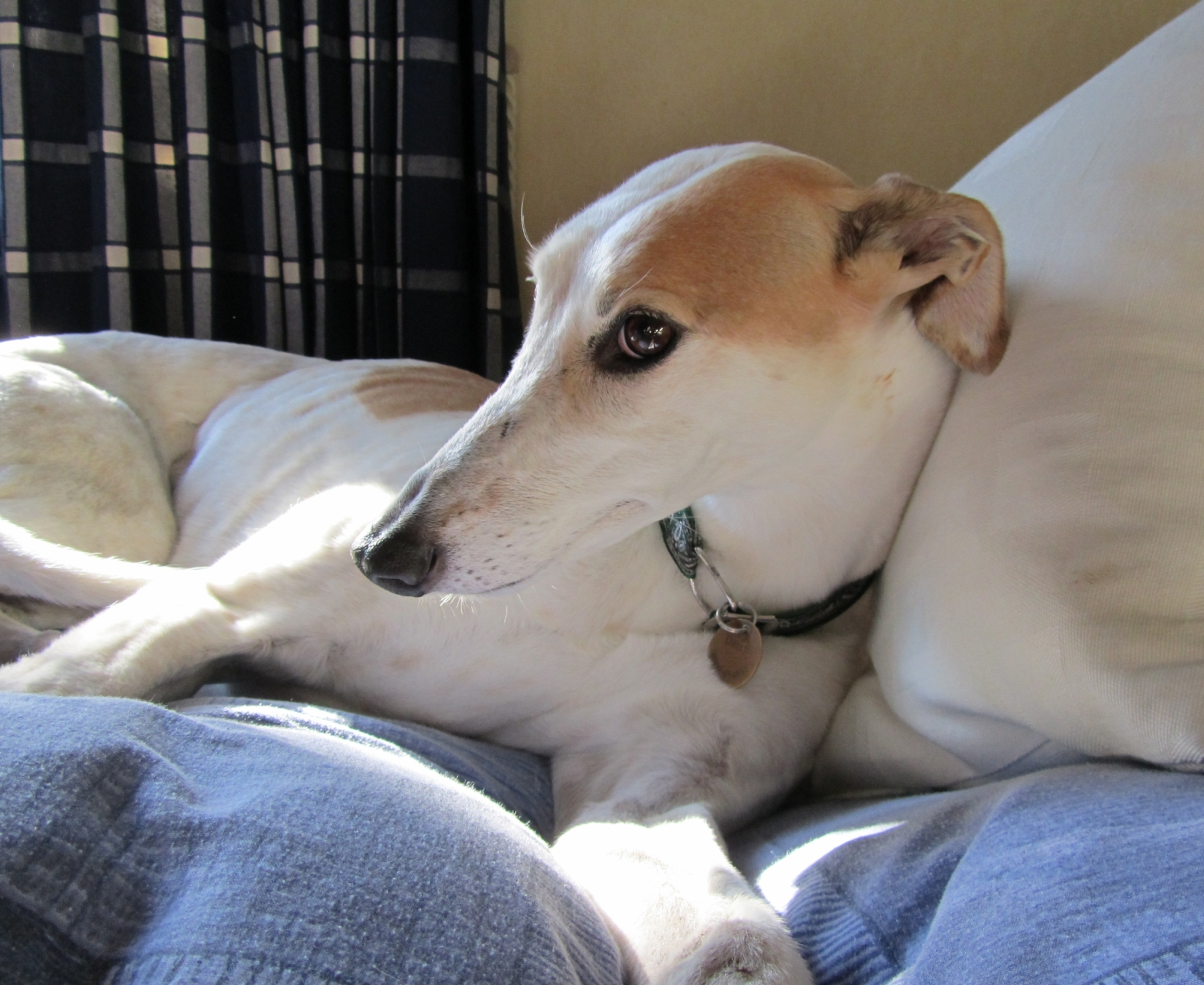 A typical Greyhound head showing its dolichocephalic proportions.